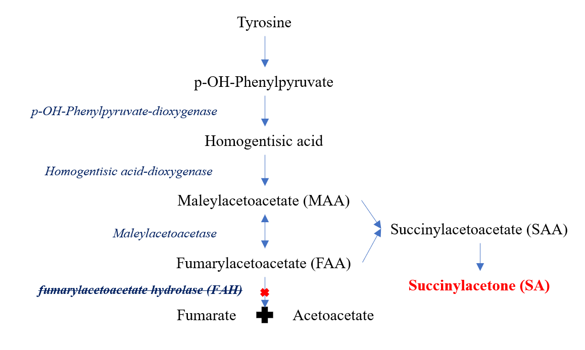 This diagram shows the breakdown of tyrosine into metabolic intermediates along with the enzymes that catalyze the reactions.